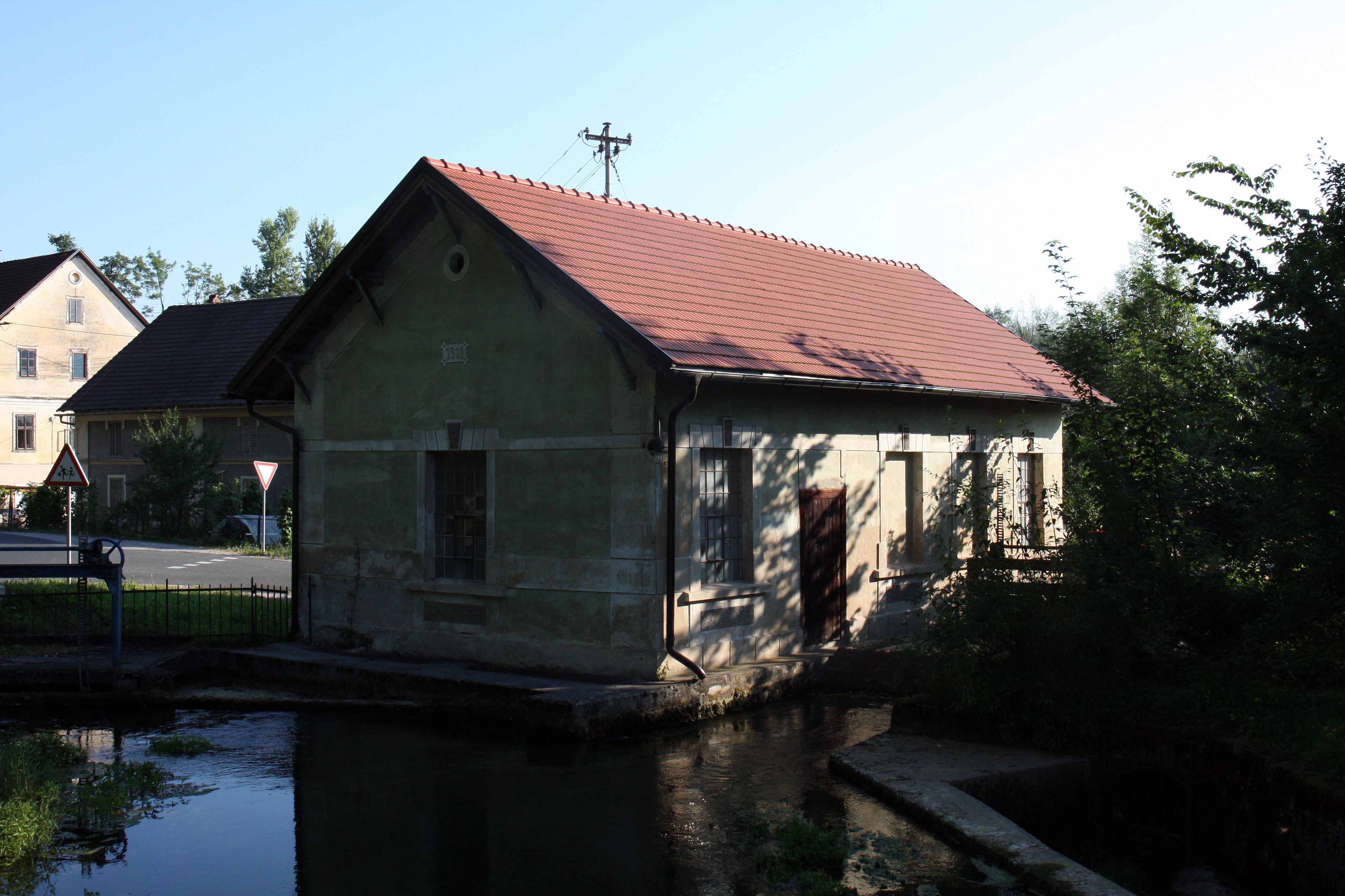 Small hydroelectric power plant Bistra in Dol pri Borovnici, Slovenia.